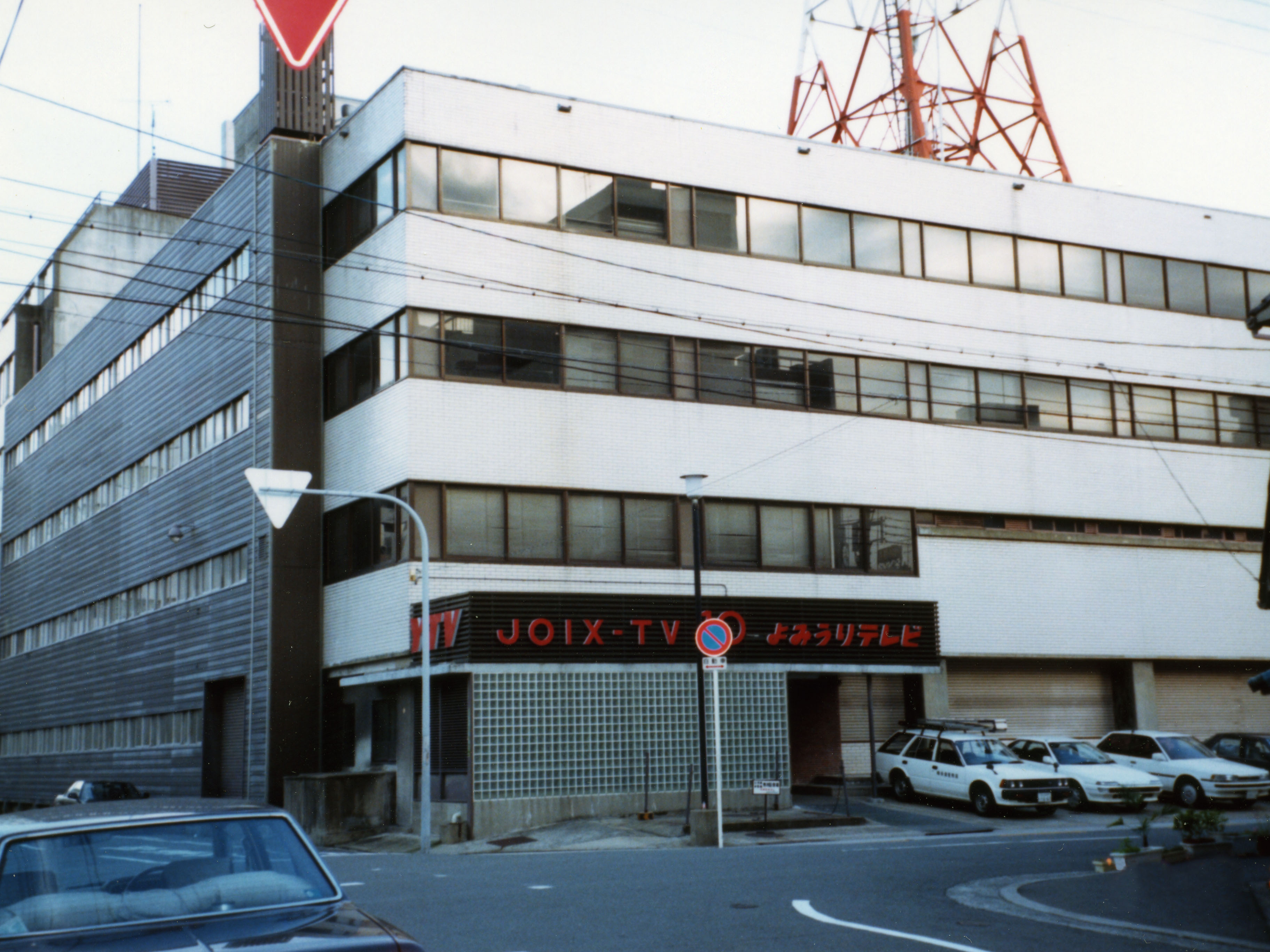 Former Yomiuri Telecasting Corporation Headquarters in Higashitenma,Higashitenma Kita-ku Osaka Japan.